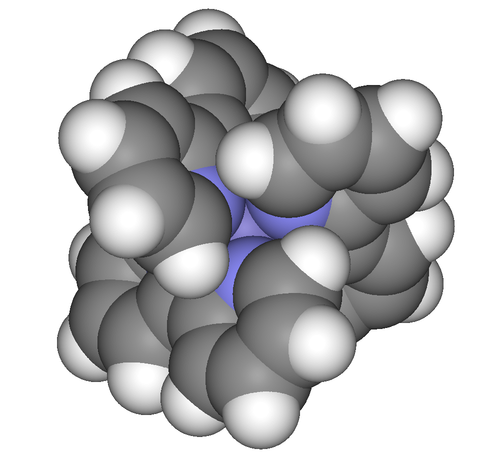 chemical structure of Fe(Bipy)3